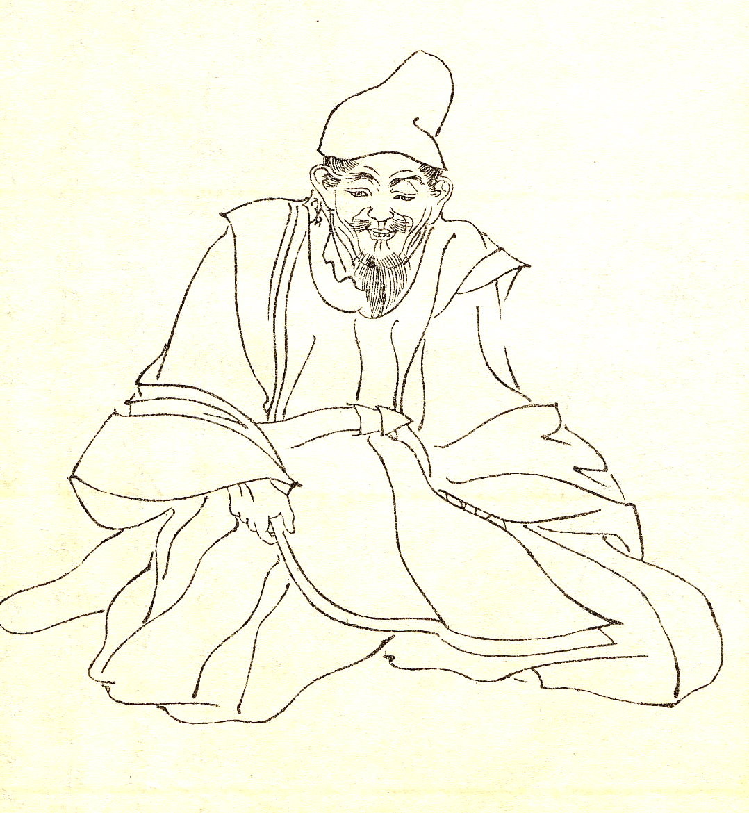 Ki no Yasuo(紀安雄) was a Japanese court noble and Scholar in the Heian era.